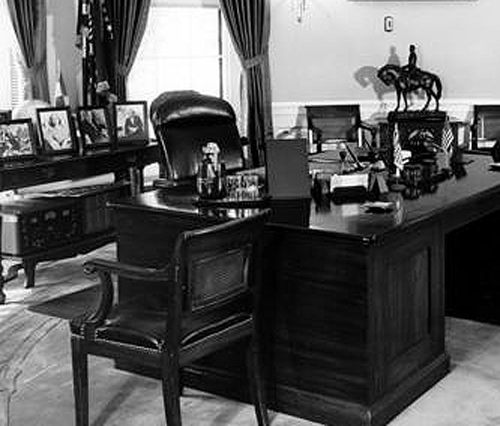 Harry Truman's desk with Hallicrafters SX-28 receiver